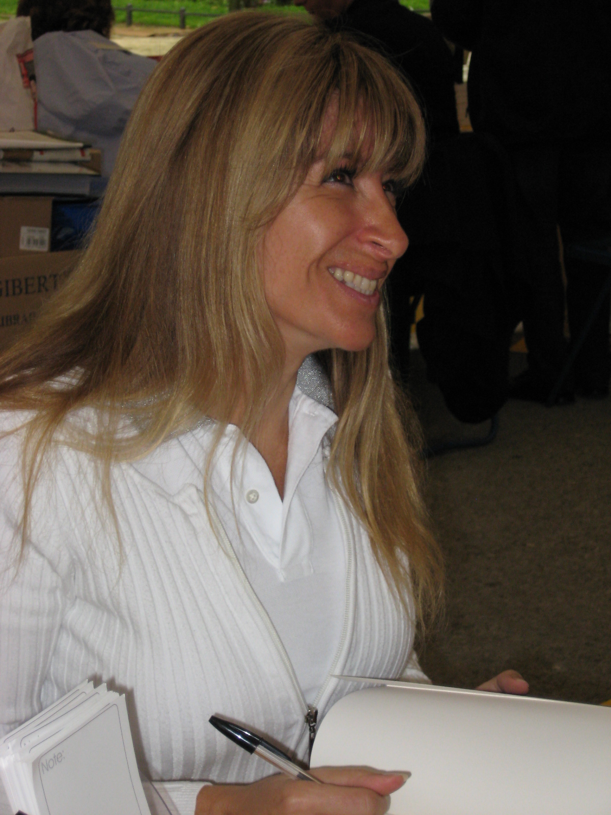 Sophie Audouin-Maminoukian